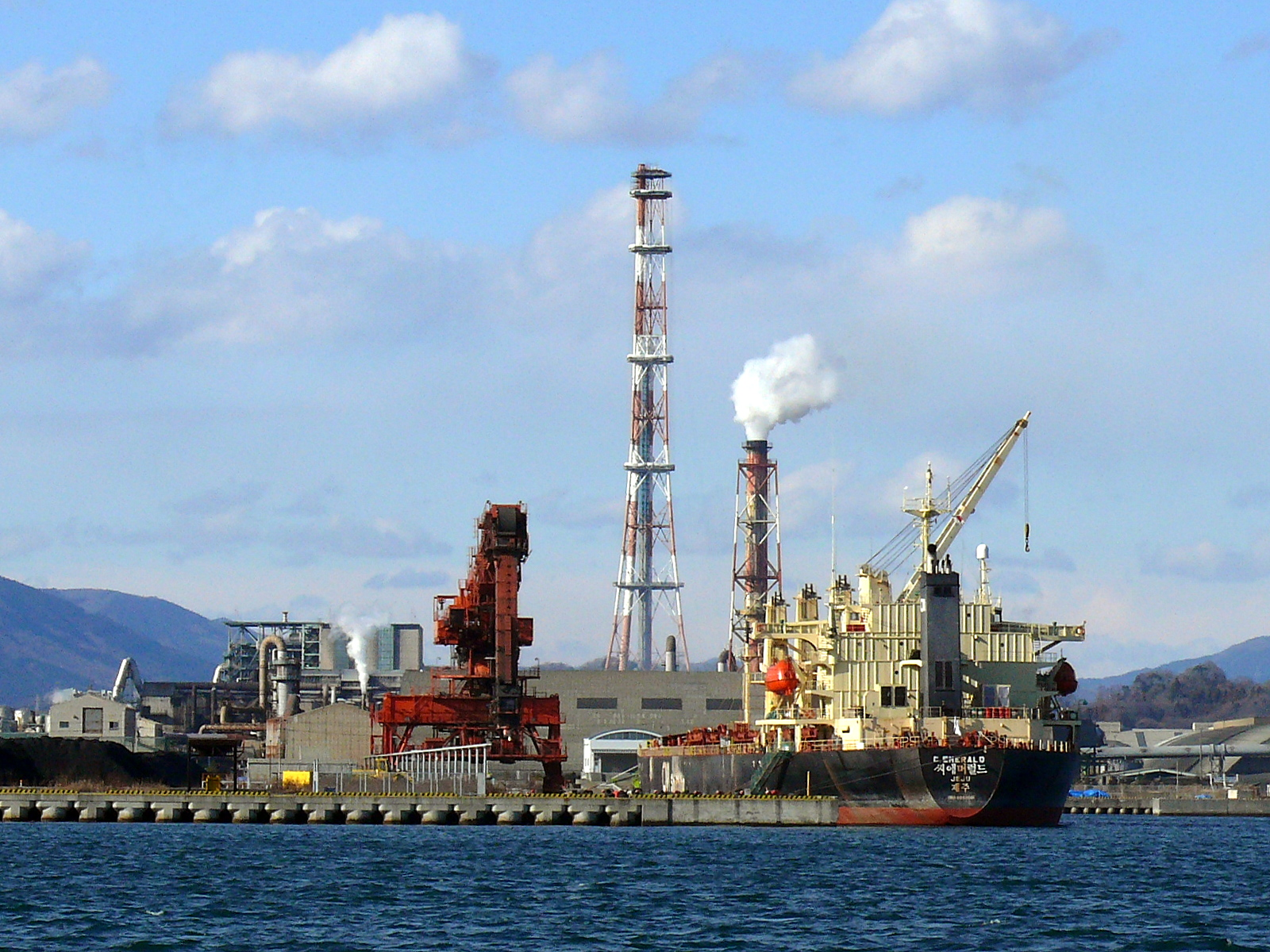 Ofunato Port（Fukushima prefecture ,Iwaki ,Japan）.